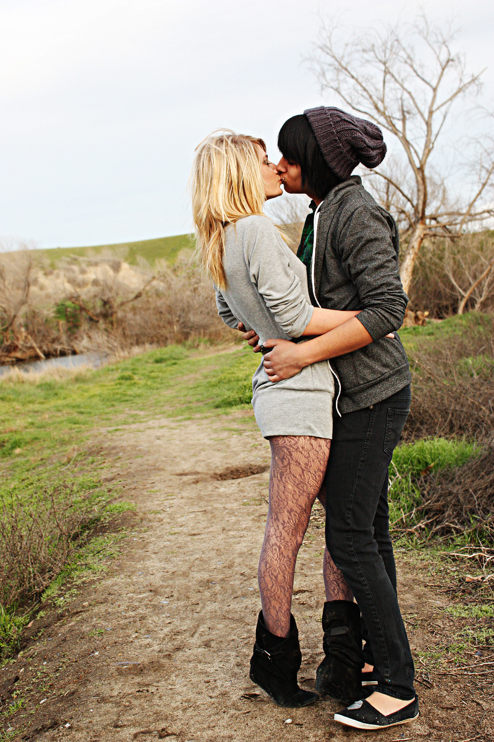 I (the uploader to wikipedia) choose this photograph by Liz Welsh as it shows the rather daring fashion of young women to wear only long top pieces to cover the hip part of less or more sheer footed or footless tights. Between circa 2008 and 2012.